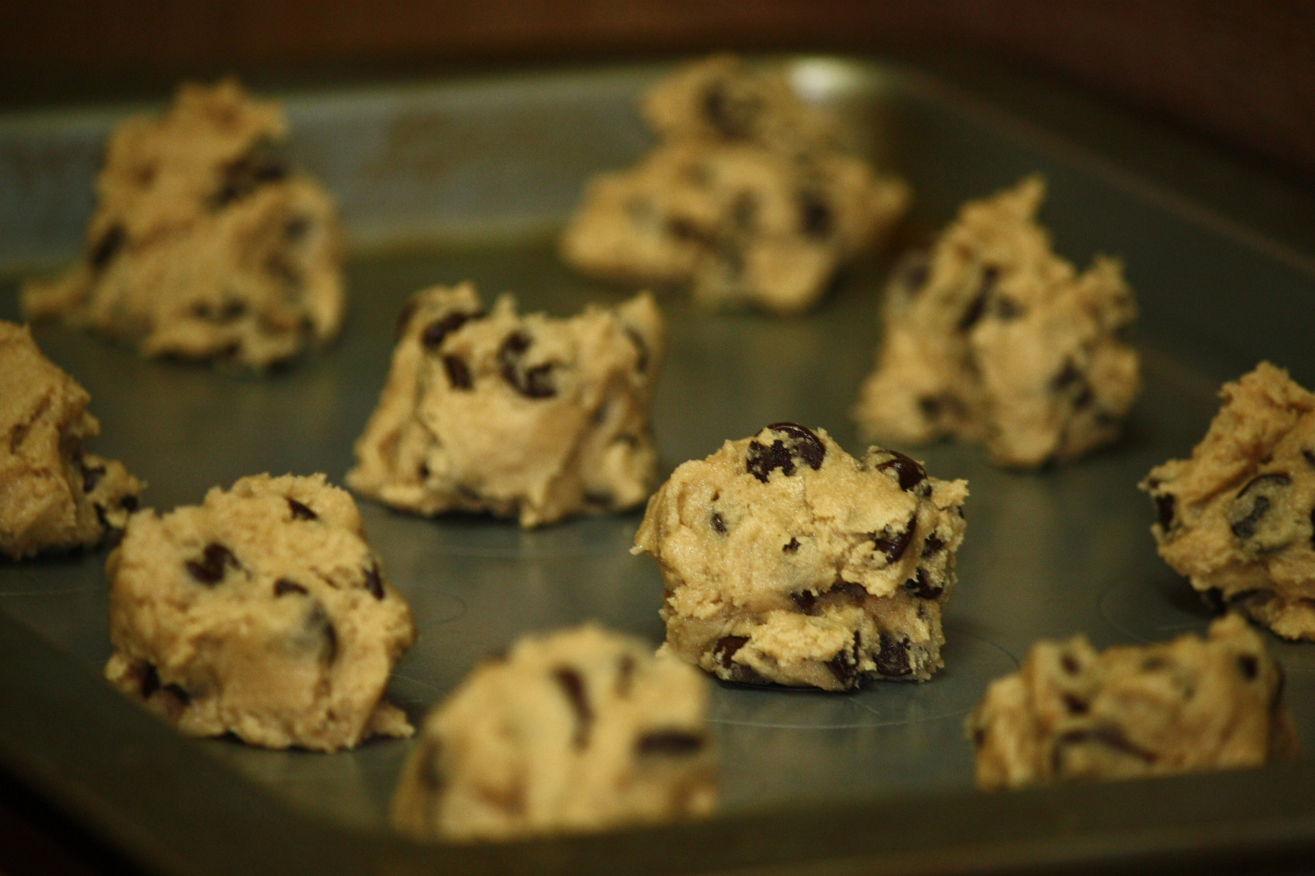 Raw cookie dough in cookie clumps.